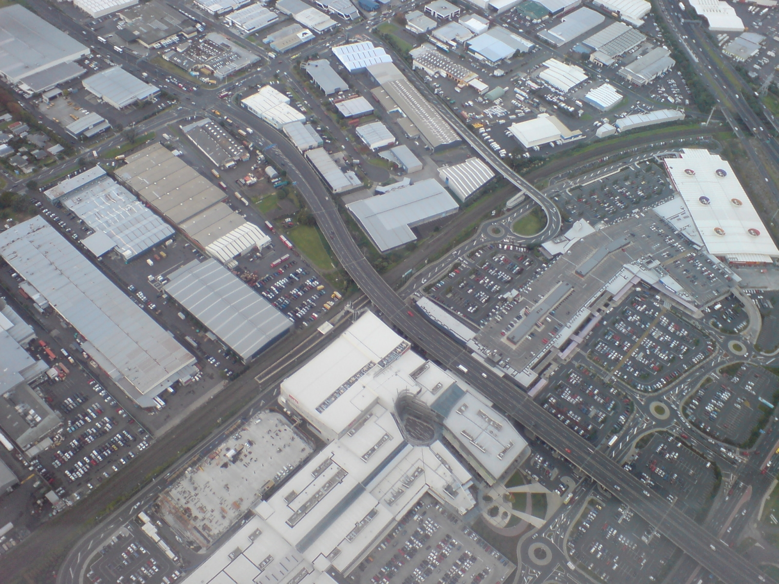 Sylvia Park shopping centre, Auckland City, New Zealand. Taken from a light plane to Great Barrier Island, the view is roughly eastwards. You can see the main parking areas, the supermarket at the far right, the cinemas at the left (behind the building with the oval open square. The Sylvia Park Train Station is also visible.